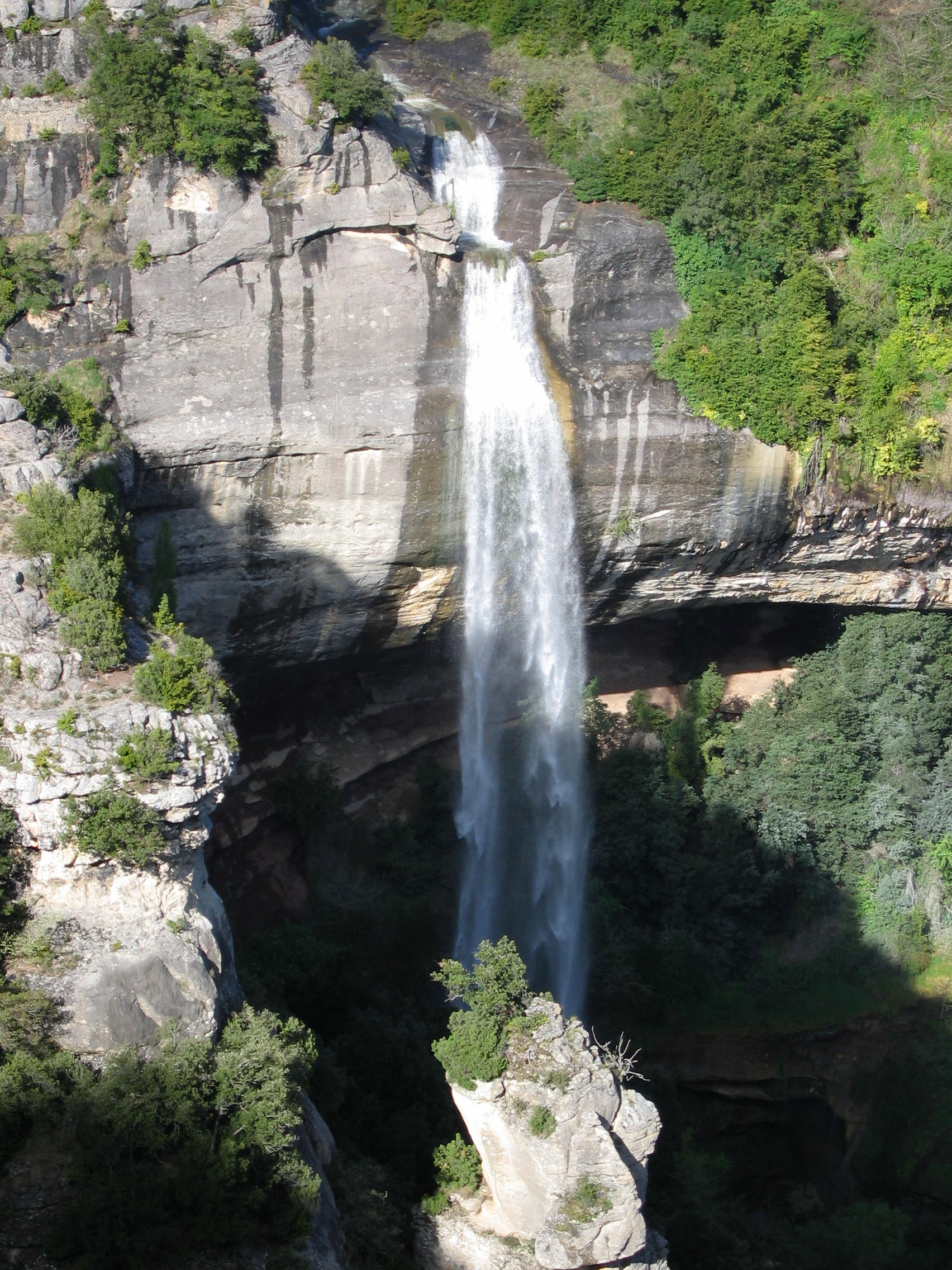 Tavertet - Salt de Moli-bernat i la balma de les corts